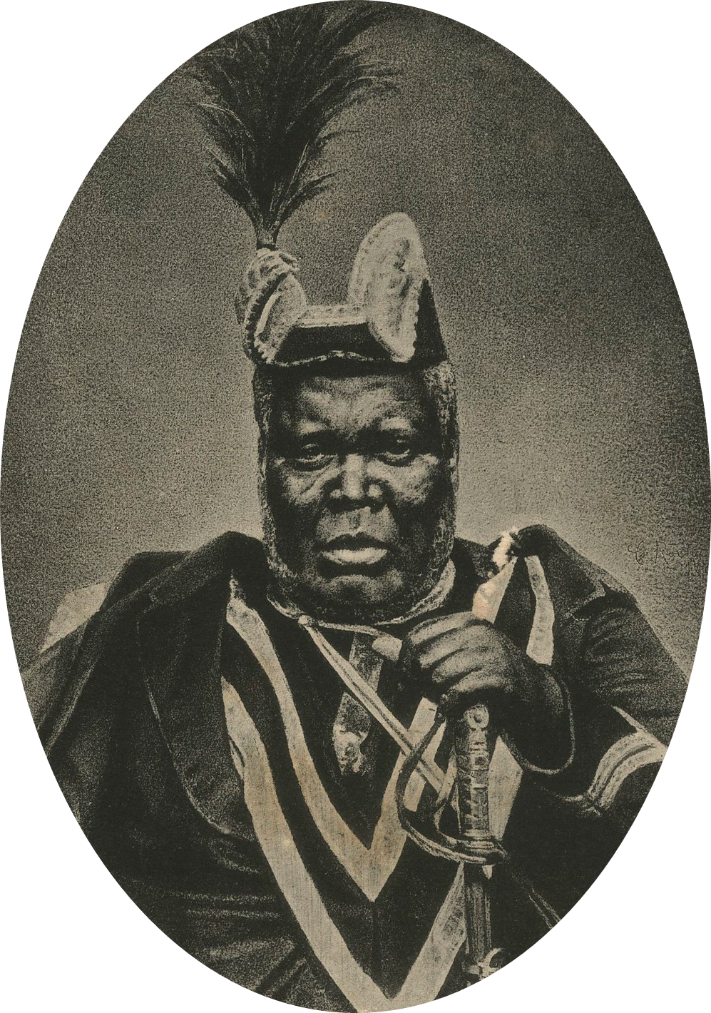 Photograph of Pedro V of Kongo, in Cunha Moraes's 1885 photographic album Africa Occidental.